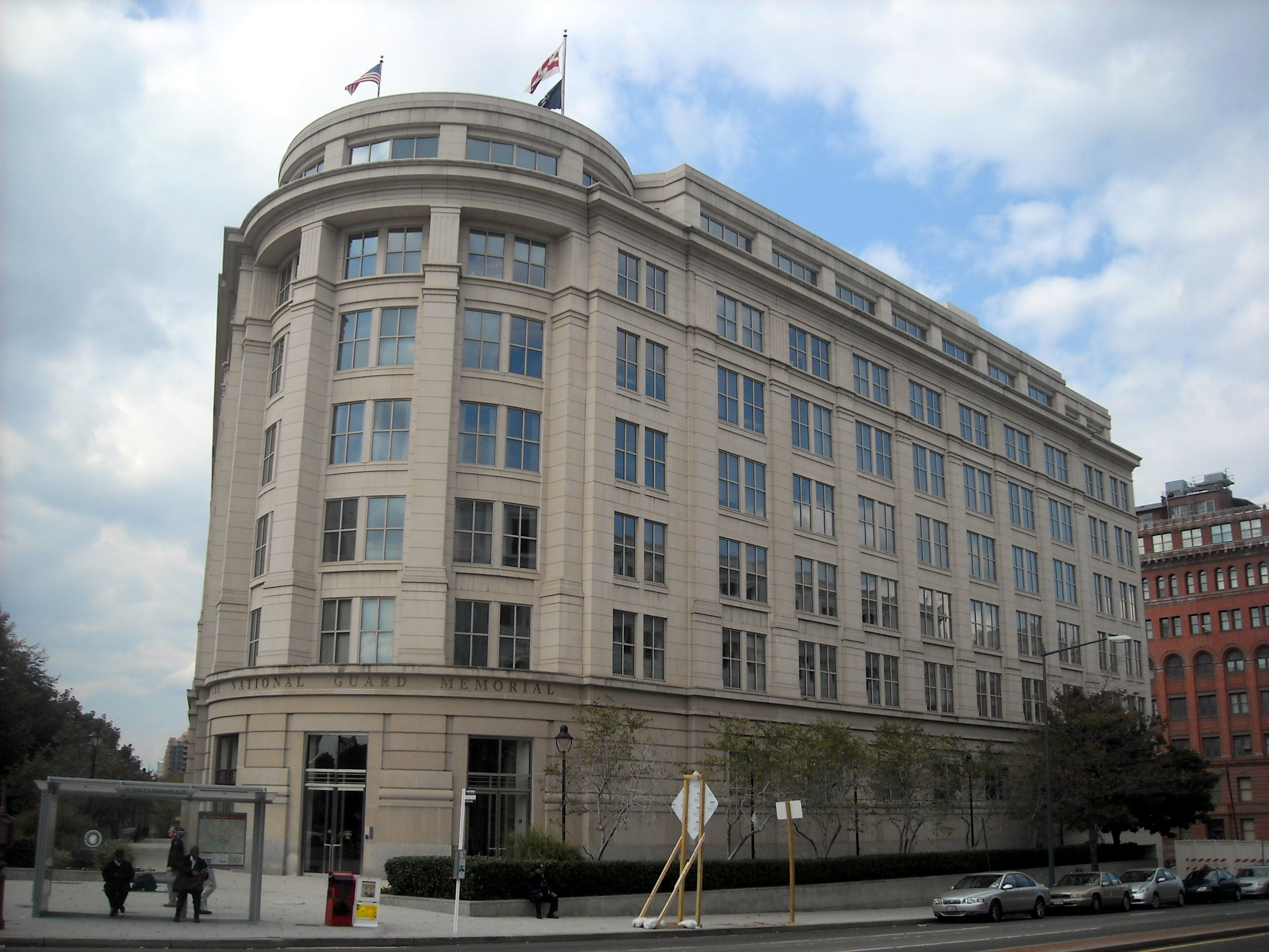 The National Guard Memorial Building, located at 1 Massachusetts Avenue, N.W., in the NoMa neighborhood of Washington, D.C.